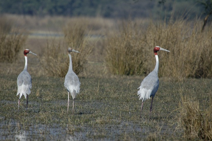 A pair of Sarus cranes (Grus antigone) with their juvenile progeny at Sultanpur National Park, Gurgaon, India. These large (up to 5' tall) cranes pair for life.